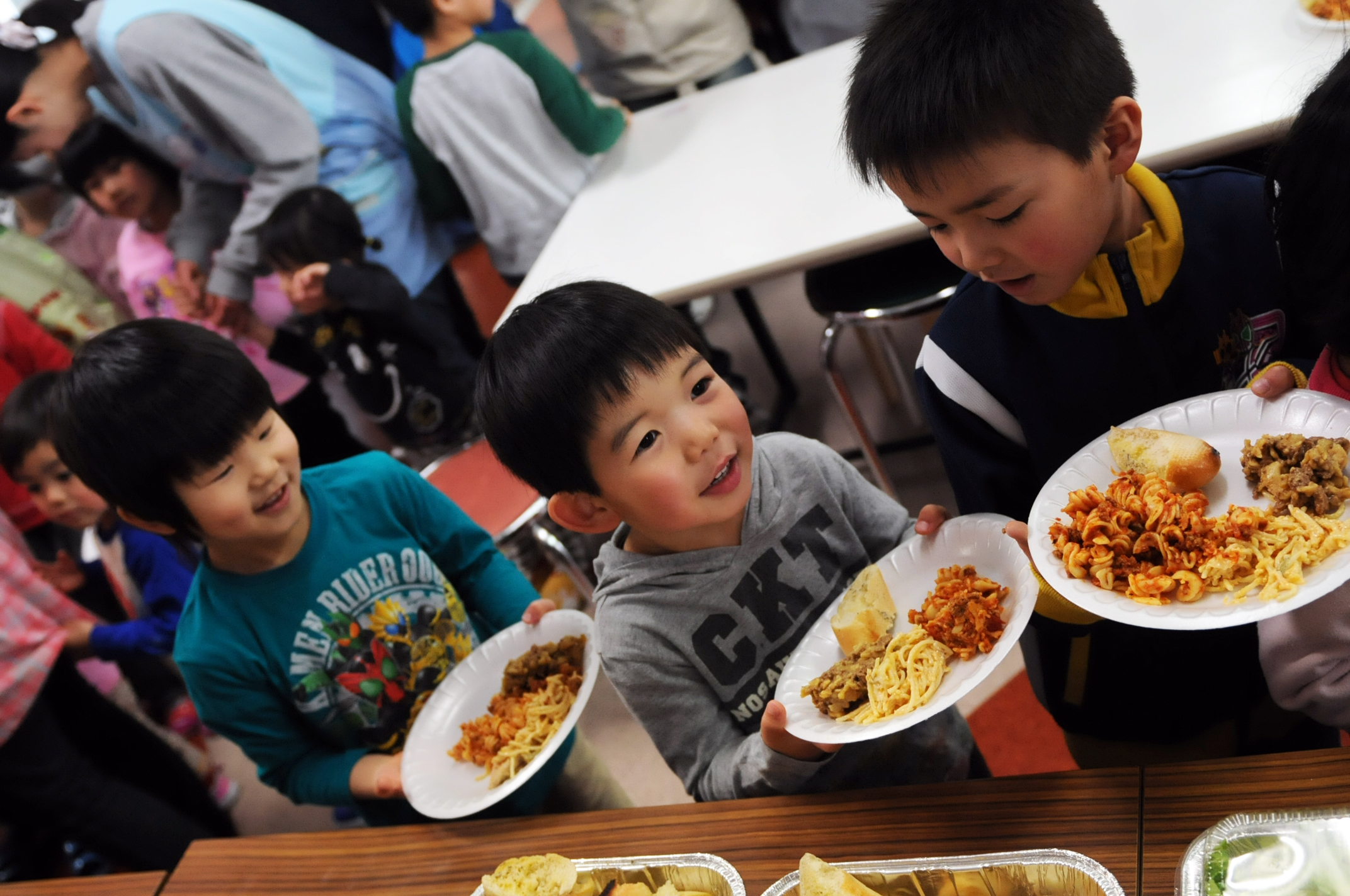 SHICHINOHE, Japan (March 26, 2011) Children laugh as they wait in line for a home cooked meal at the Biko-en Children's Care House during a community service project hosted by service members assigned to Naval Air Facility Misawa and Misawa Air Base. Volunteers also donated food, clothing and toys to the center. (U.S. Navy photo by Mass Communication Specialist 2nd Class Devon Dow/Released)